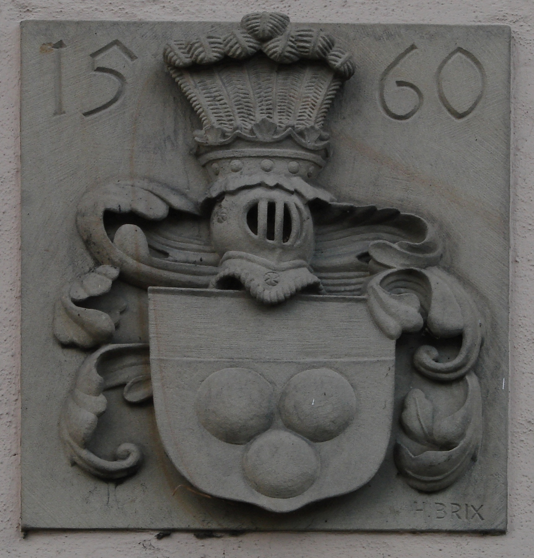 Freiberg am Neckar, restored crest of the noble family of Freyberg on the old town hall of Beihingen